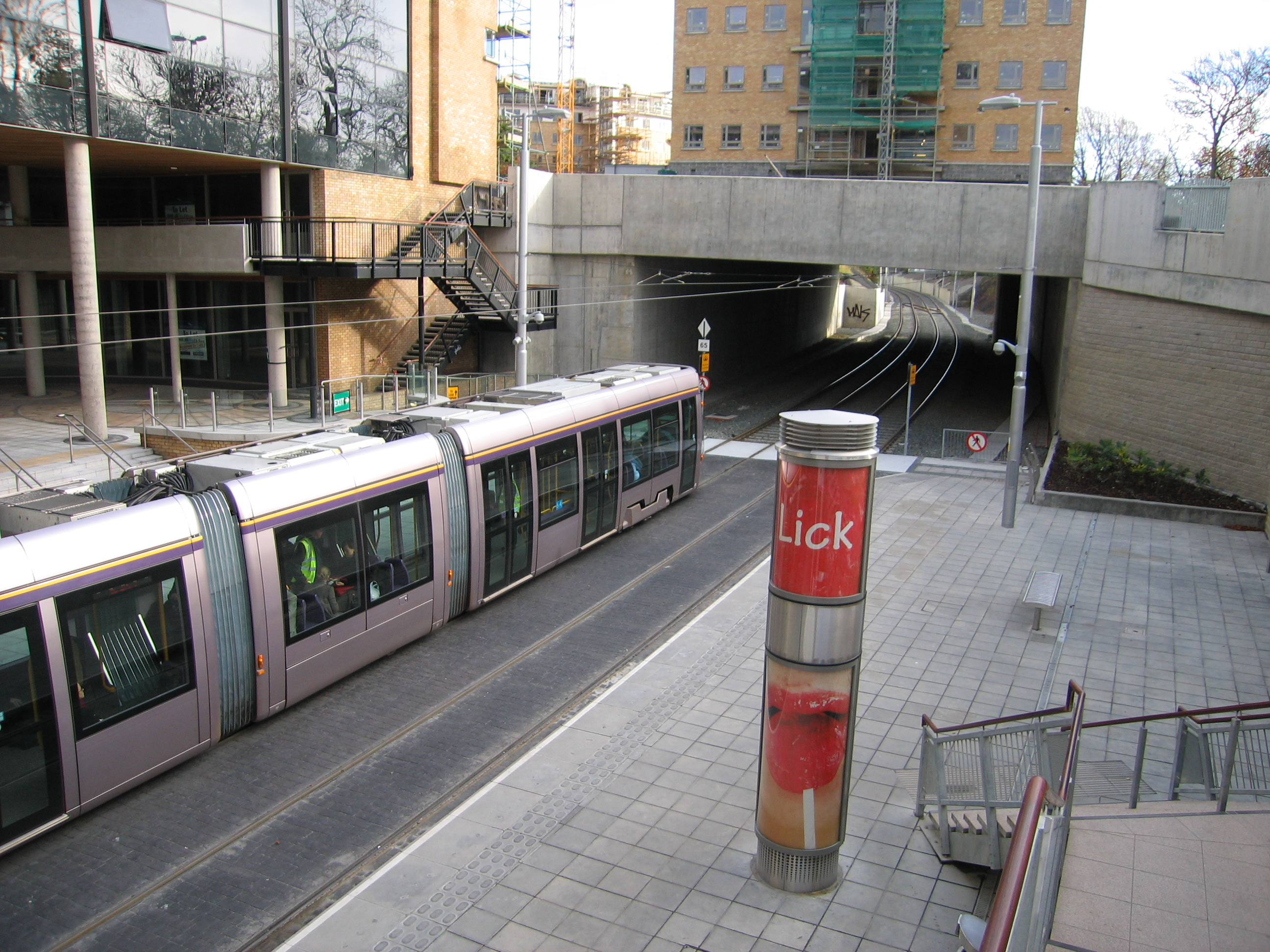 LUAS station Balally (Dundrum)